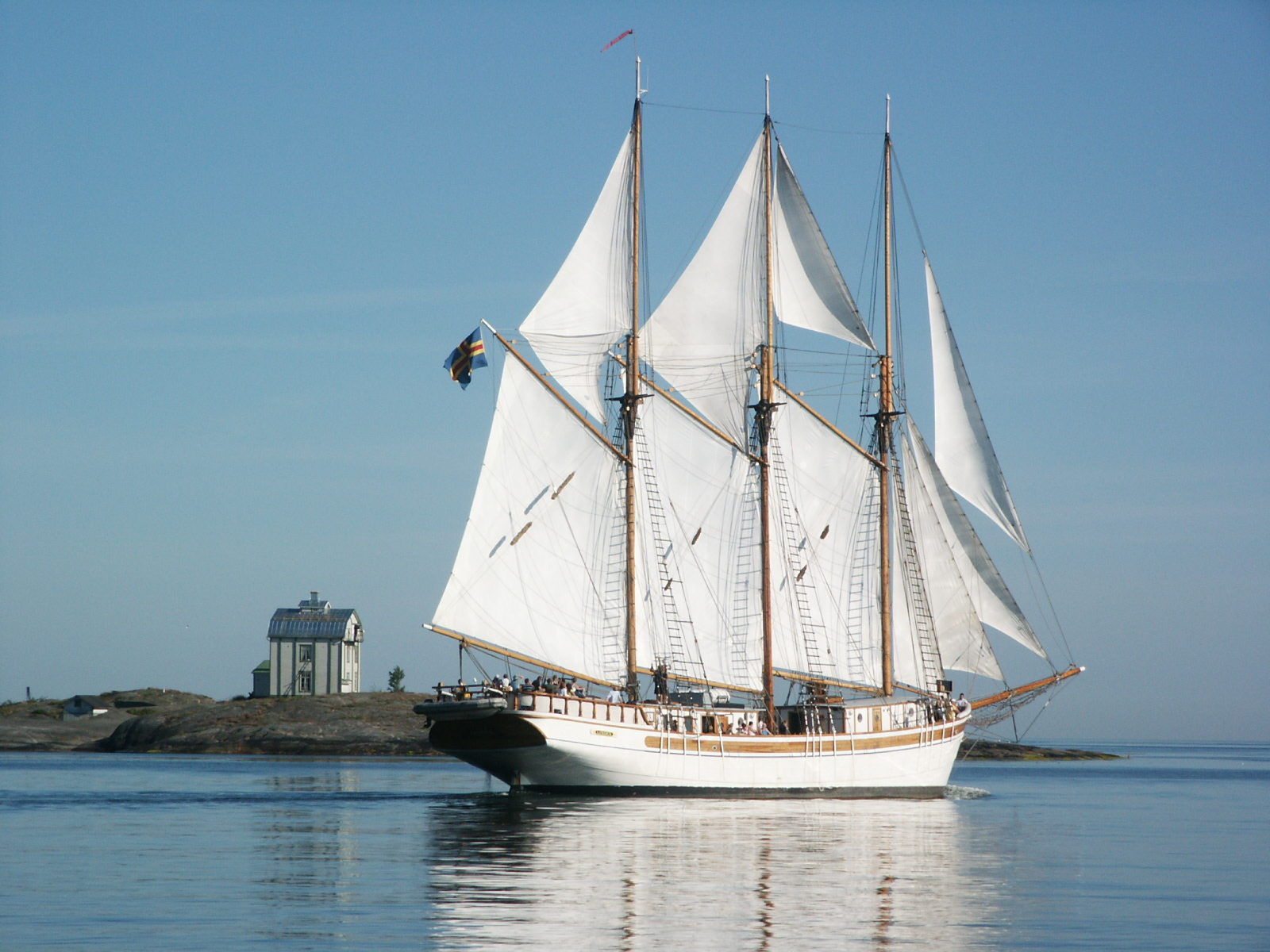 Schooner "Linden" by Kobba Klintar south of Mariehamn Minolta Dimage S414